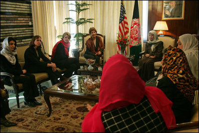 Laura Bush and Dr. Zenat Karzai, wife of President Hamid Karzai, U. S. Secretary of Education Margaret Spellings, second left, and Under Secretary of State for Global Affairs Paul Dobrianski, left, talk with Afghan women about issues of women's rights and education at the presidential residence in Kabul, Afghanistan Wednesday, March 30, 2005.